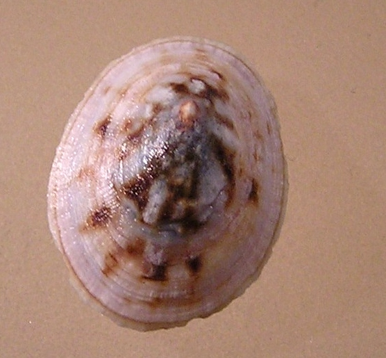 Testudinalia testudinalis, (Müller, 1776), a limpet from the family Lottiidae; Lofoten Islands, Norway